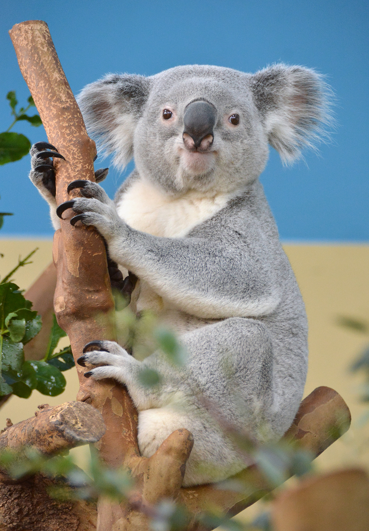 Nur-Nuru-Bin, koala of Budapest Zoo & Botanical Garden